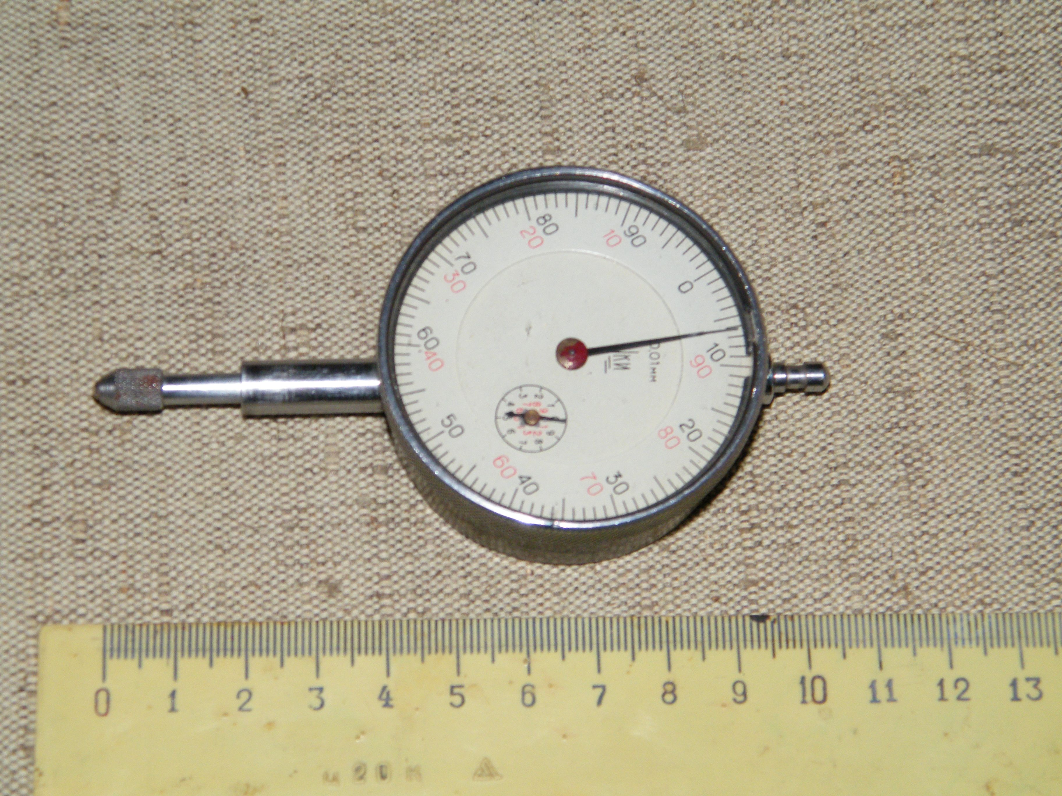 Индикатор часового типа